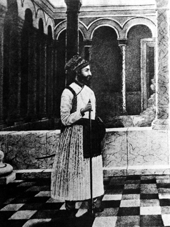 Default property of the Government of India. Available for unrestricted use, withour copyright at the Victoria Memorial Hall and Museum, Government of India, Calcutta This is the self potrait / court picture of an Indian Chieftain of more than 300 years ago.